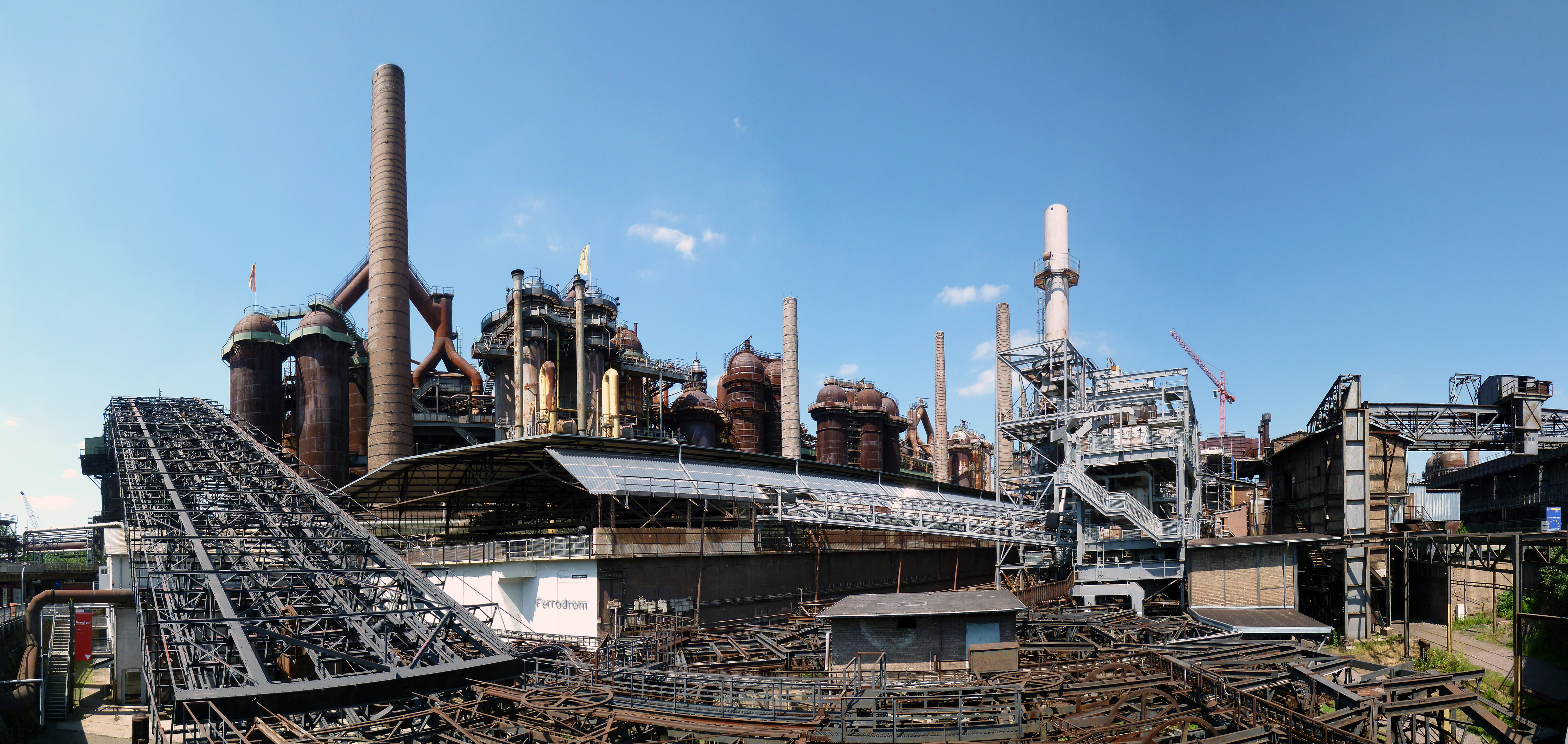 The Völklingen Ironworks (German: Völklinger Hütte) is located in the German town of Völklingen, Saarland. In 1994, it was declared by UNESCO a World Heritage site. The former ironwork was founded in 1873 and decommissioned in 1986. In 1994 it was declared a World Heritage site by the UNESCO and is regarded the most important location of the industrial culture in Europe today (2010).